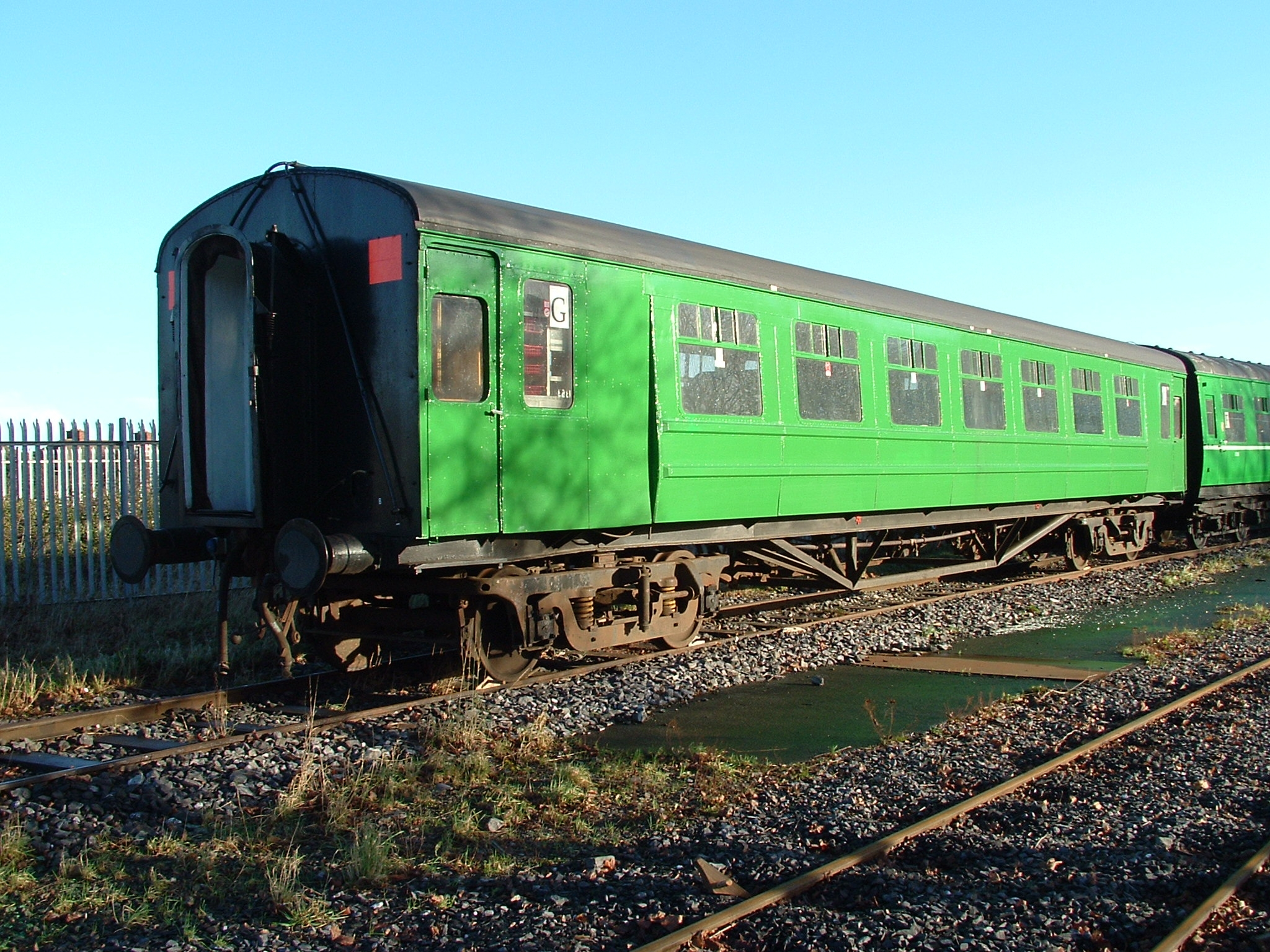 Dawgz, taken at Inchicore, 2005